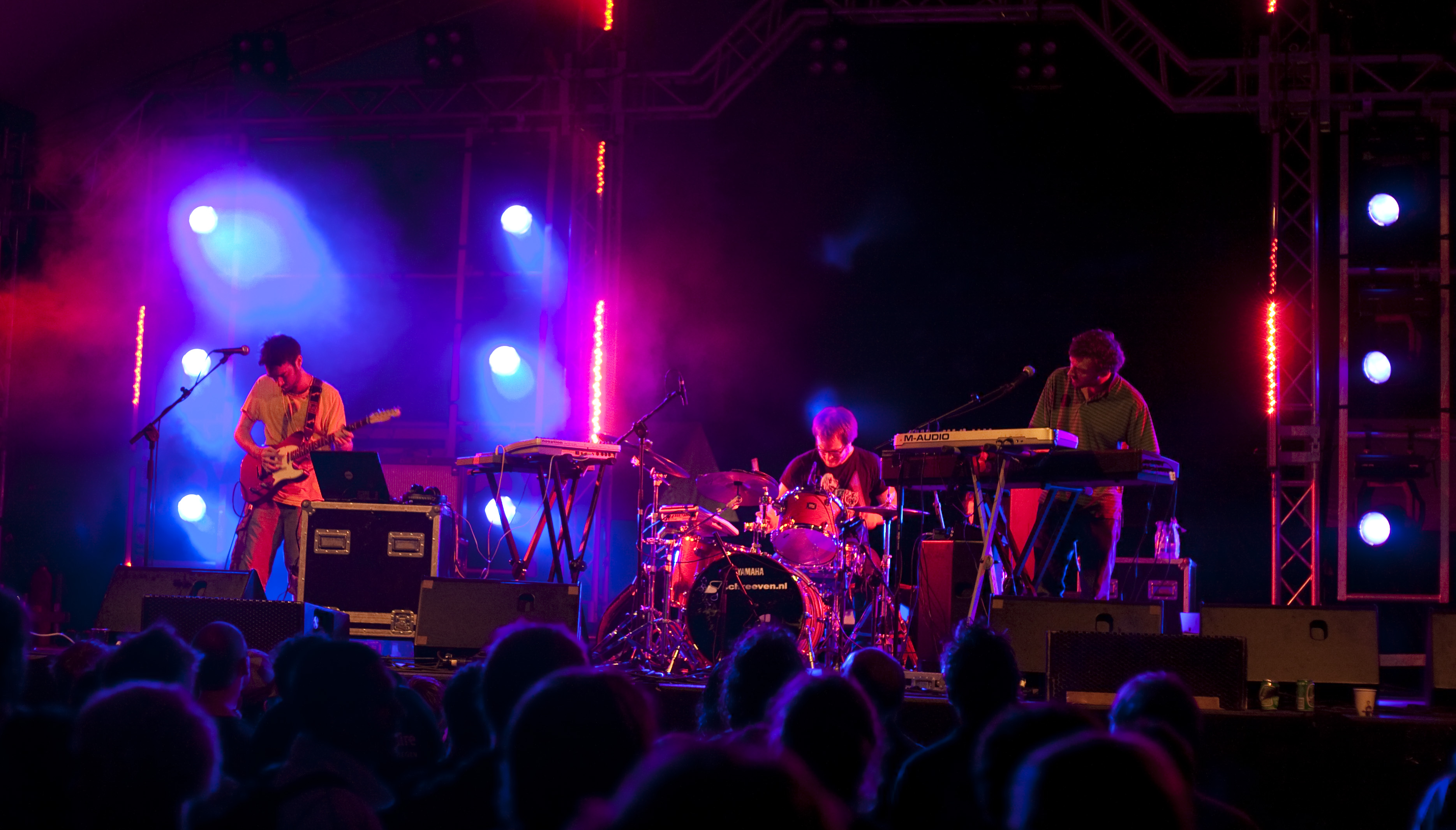 Three Trapped Tigers Performing live at the Festival de-Affaire., 2009